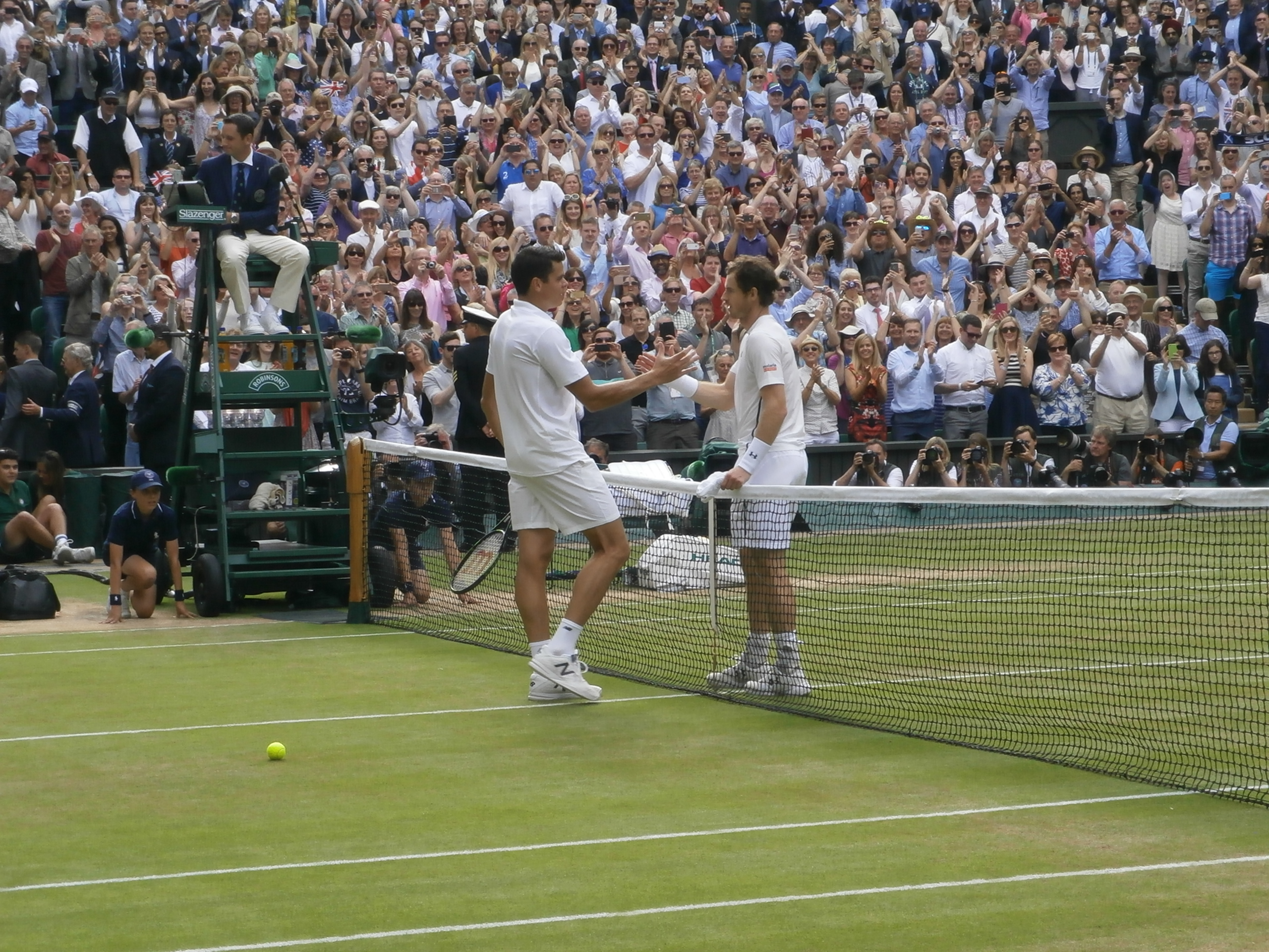 Andy Murray playing in the men's singles final